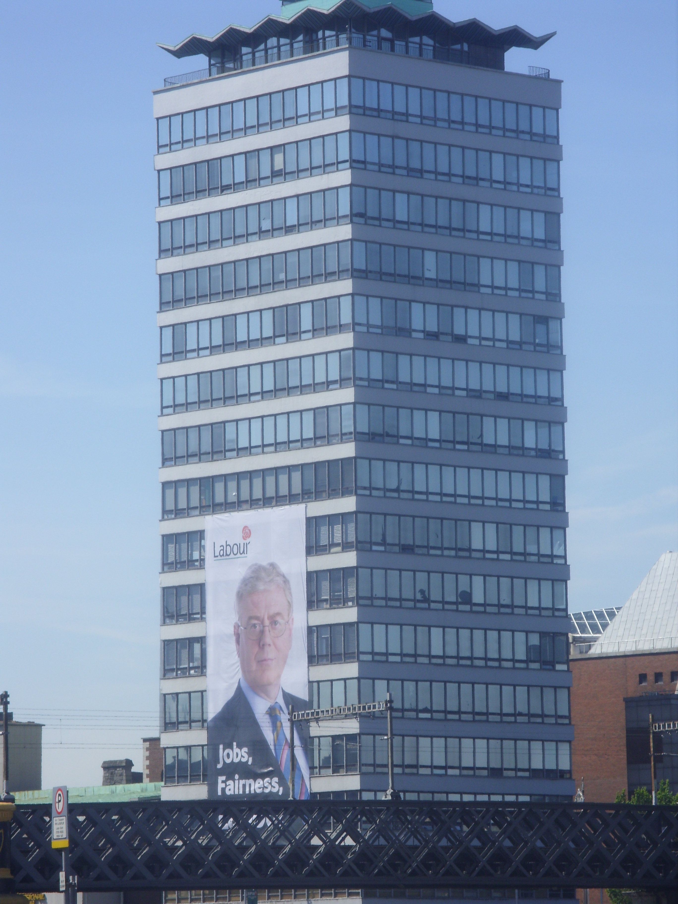 Eamon Gilmore on Liberty Hll